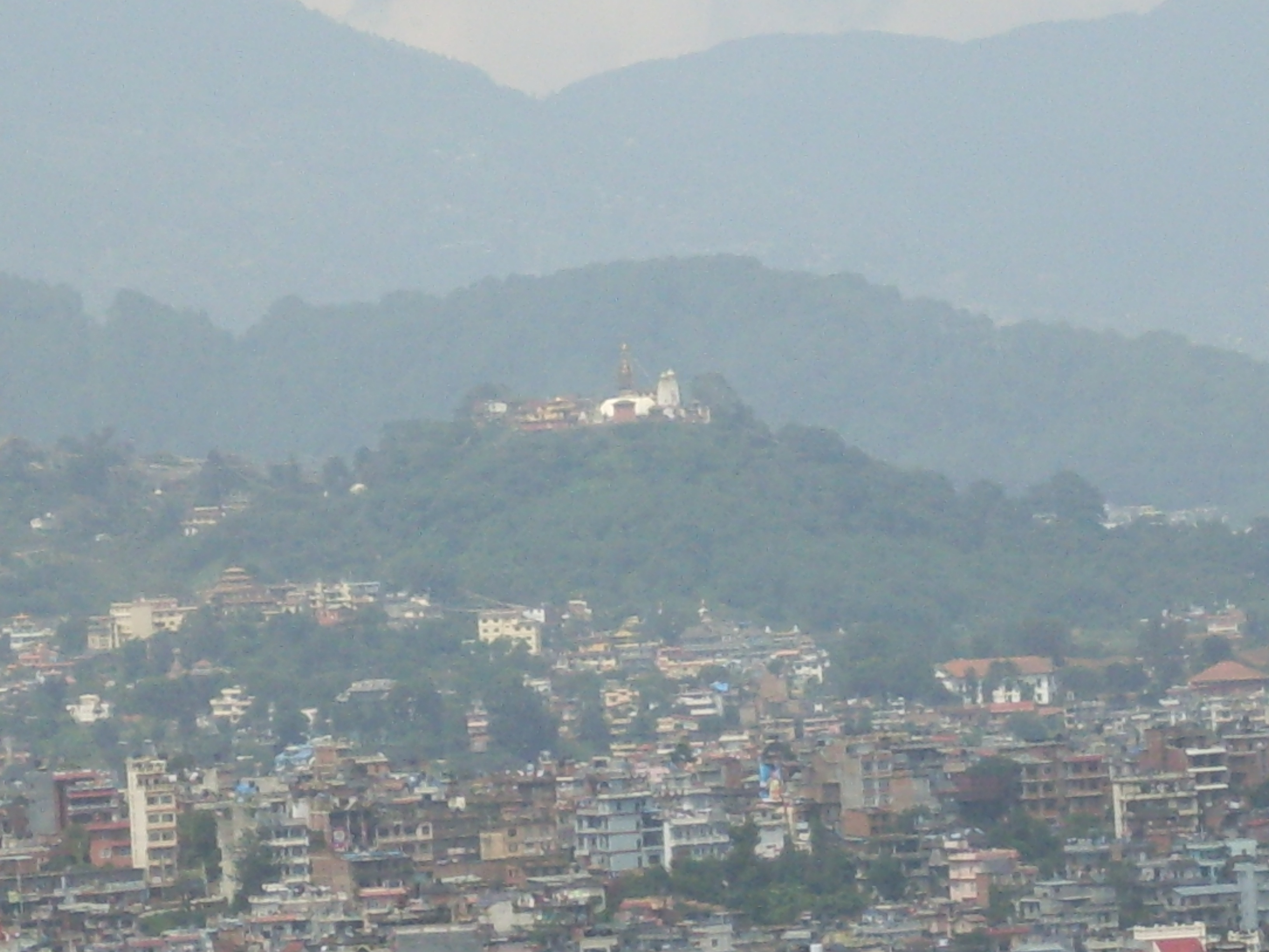 View of Swayambhunath, taken from Kirtipur hill